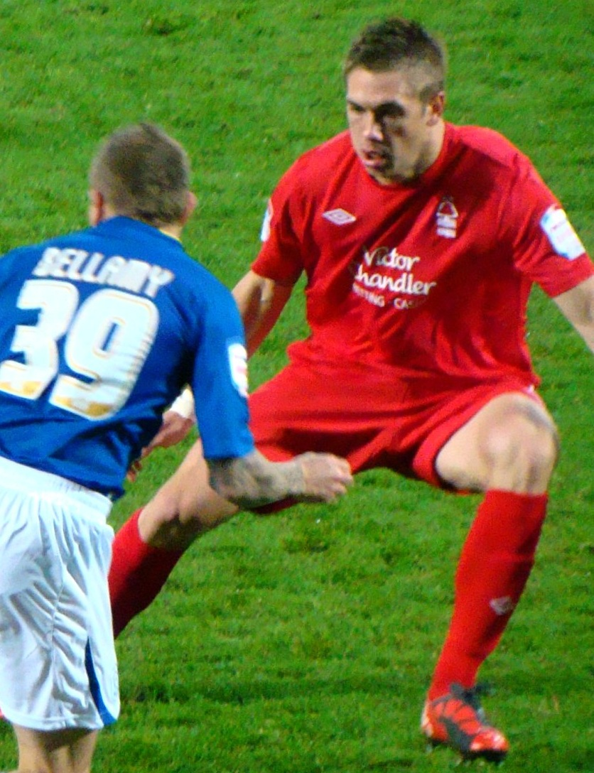 Luke Chambers, cropped - 20/11/10 Cardiff V Nottingham Forest, Championship, Cardiff City Stadium, Cardiff, Wales